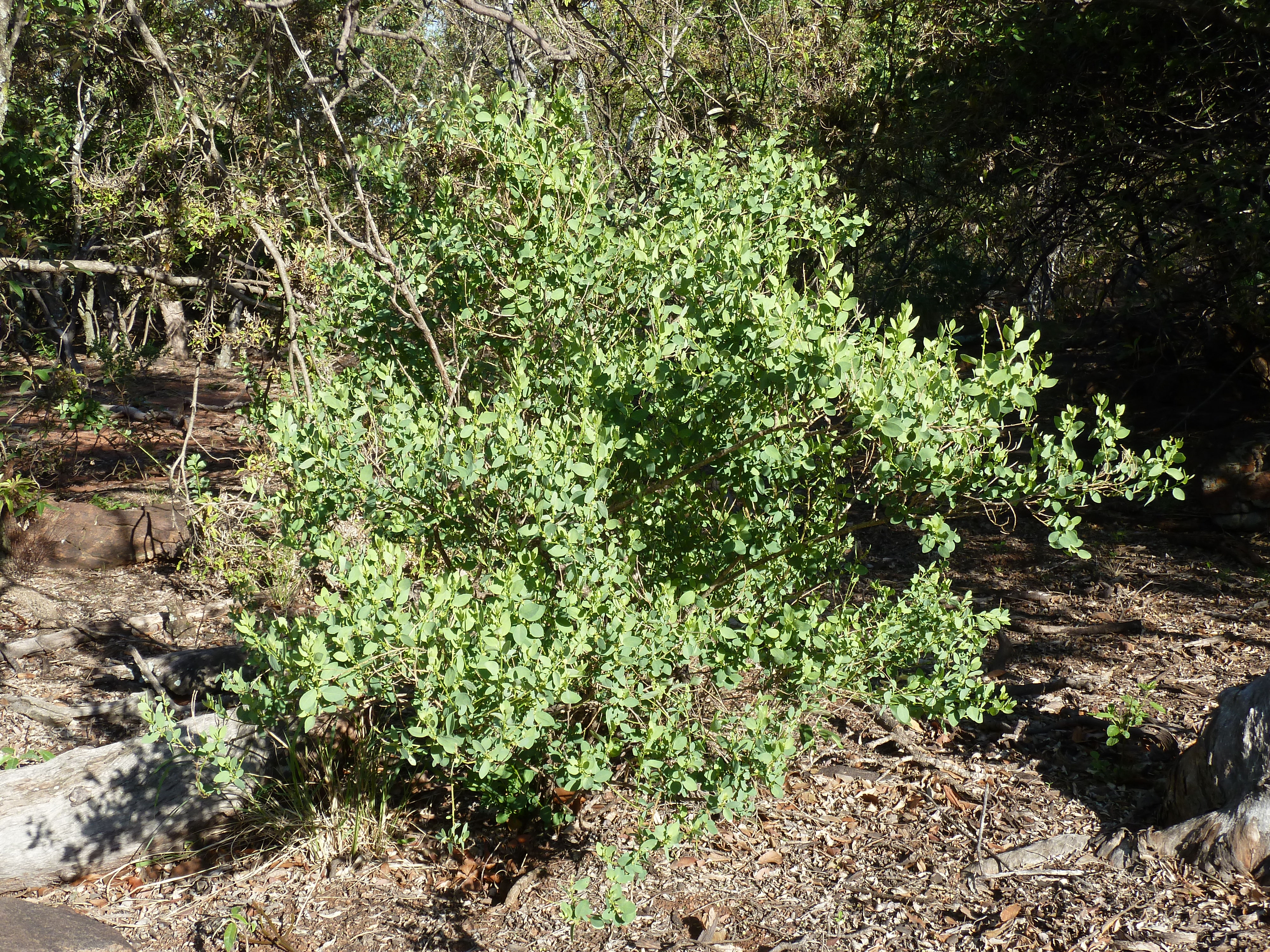 Lightning bush on a kopje at Seringveld near Pretoria, South Africa